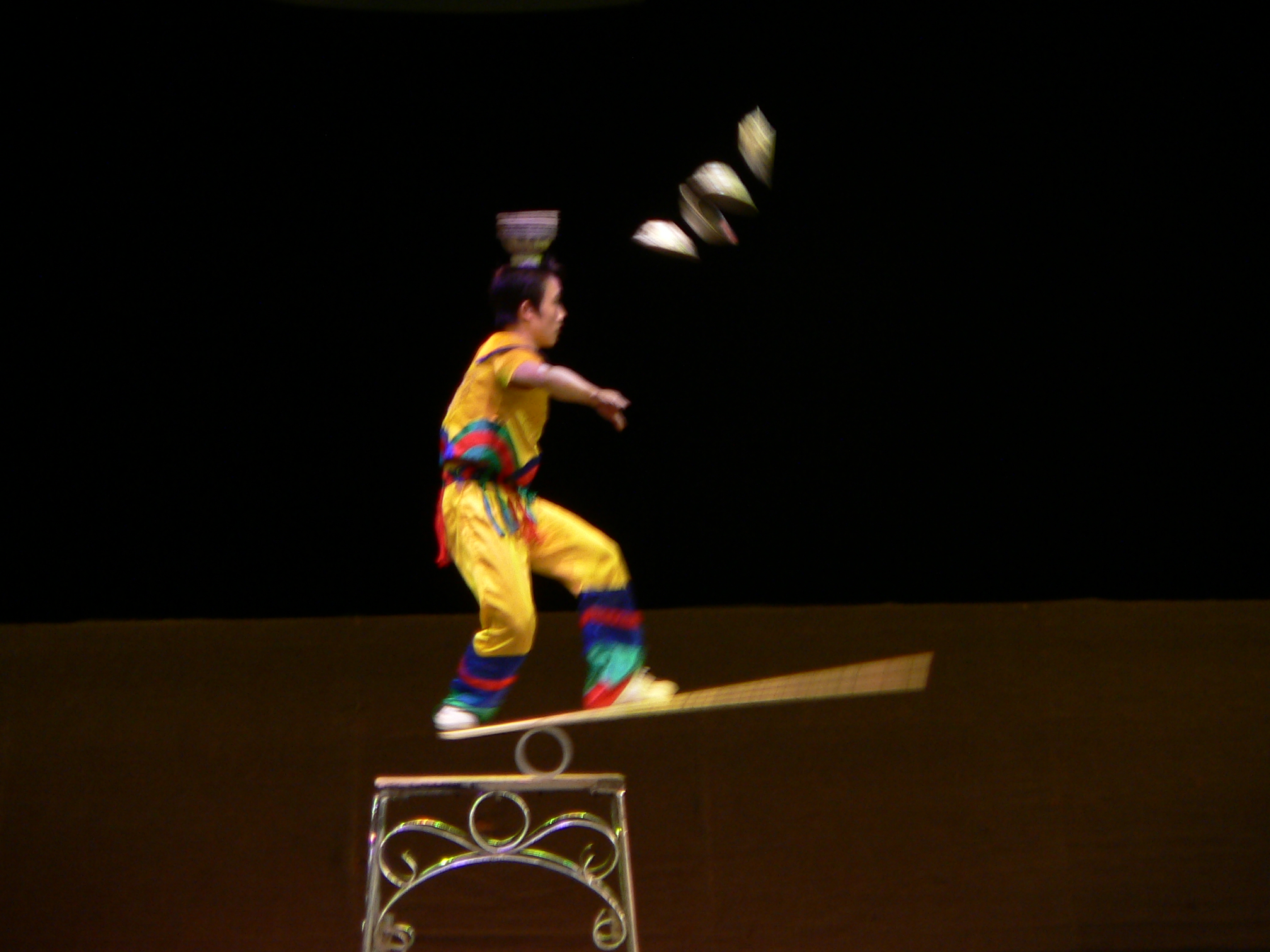 using a balance board as a catapult, as seen in the combination of this and the accompanying photo